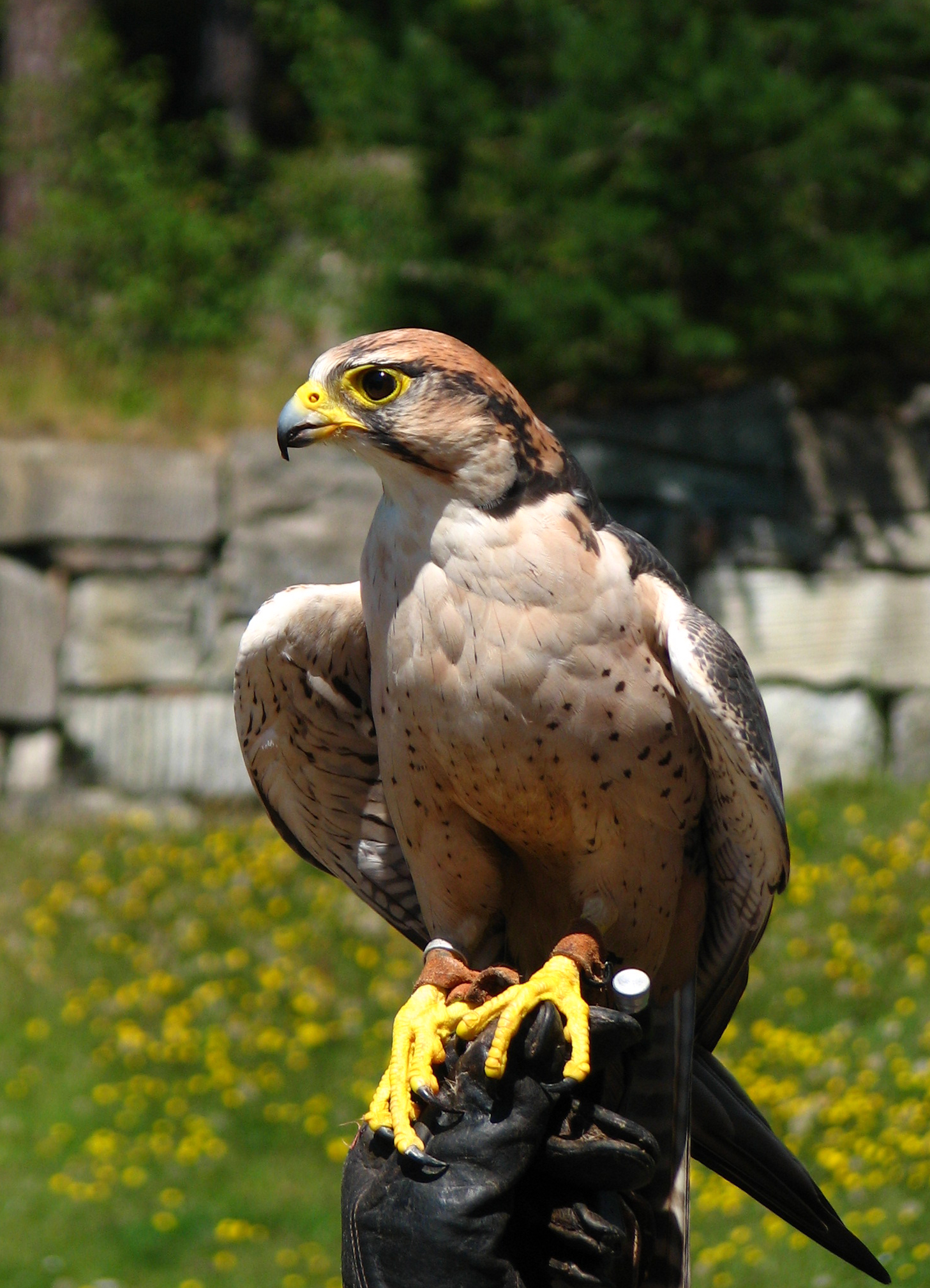 A Lanner Falcon (Falco biarmicus). Photo taken during a show with pirds of prey. Kolmårdens Djurpark, Sweden.